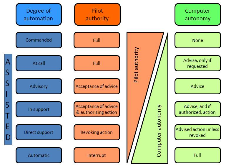 Degrees of autonomy between full pilot authority and full UAV autonomy